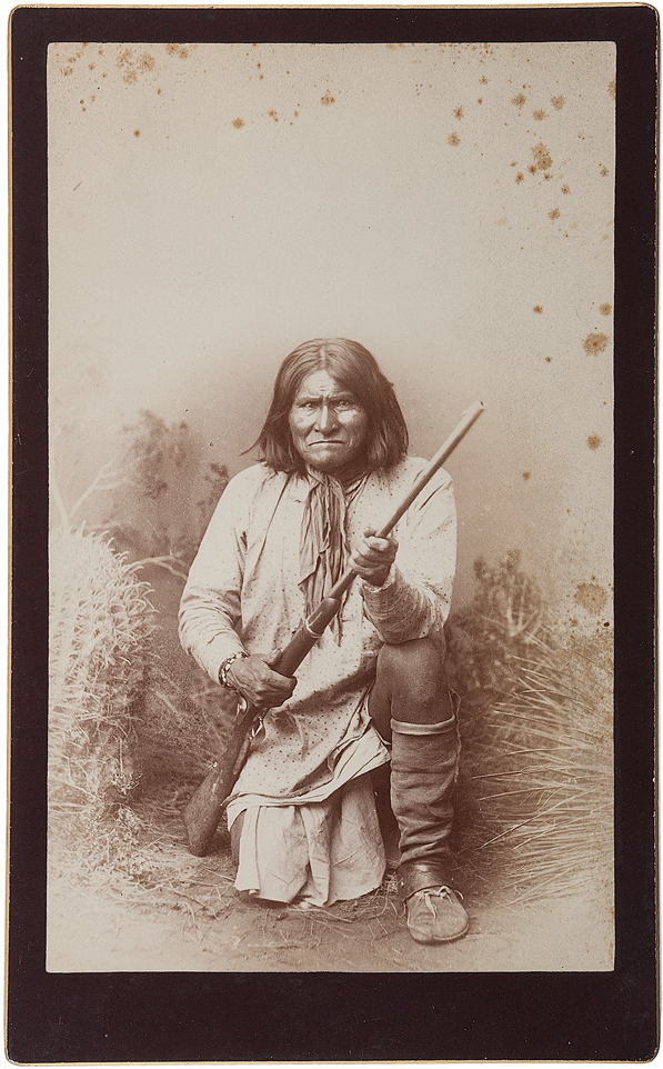 Geronimo 1. Test upload, please do not delete now.